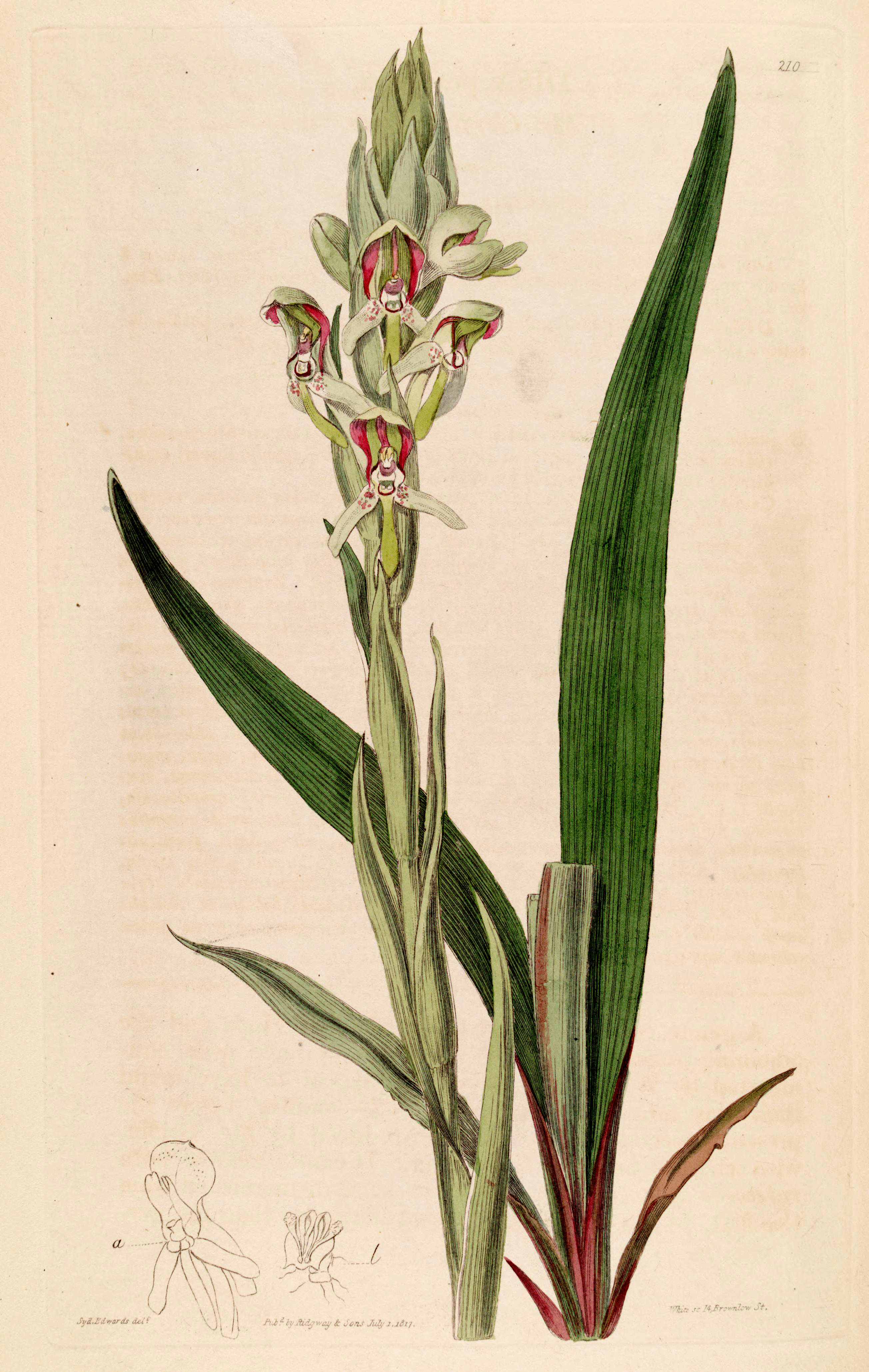 Illustration of Disa cernua (as syn. Disa prasinata)